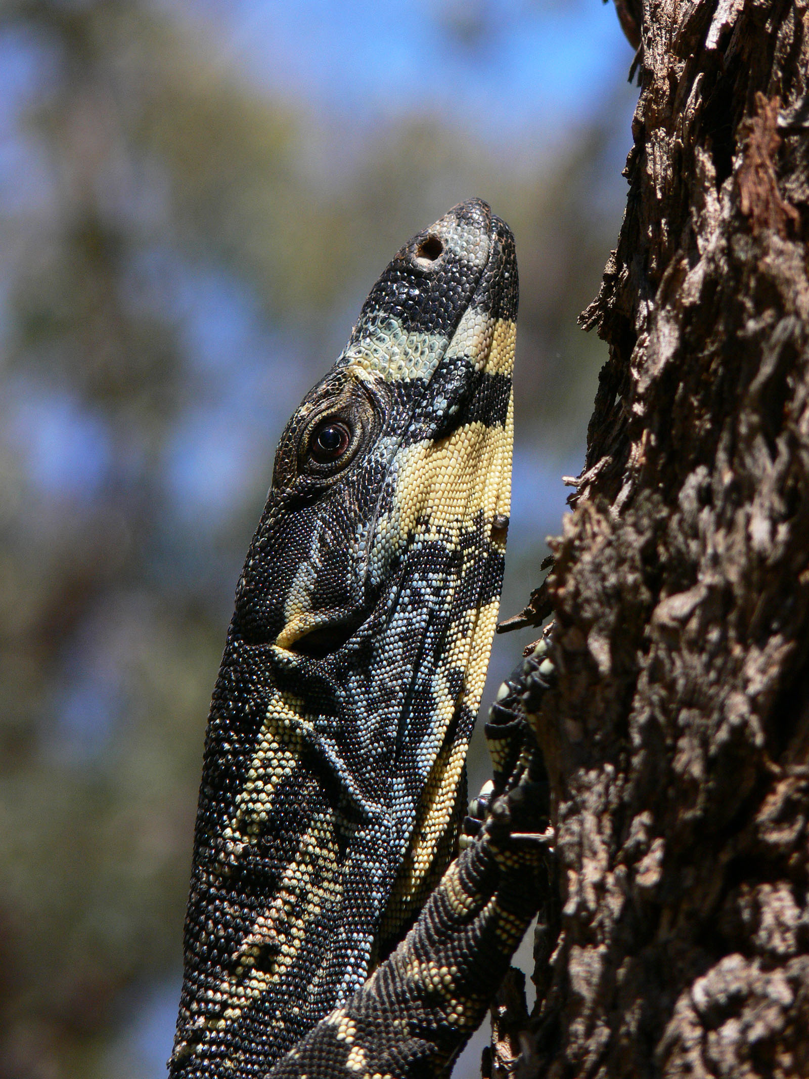 An Australian Lace Monitor more commonly known as a Goana (Varanus varius)